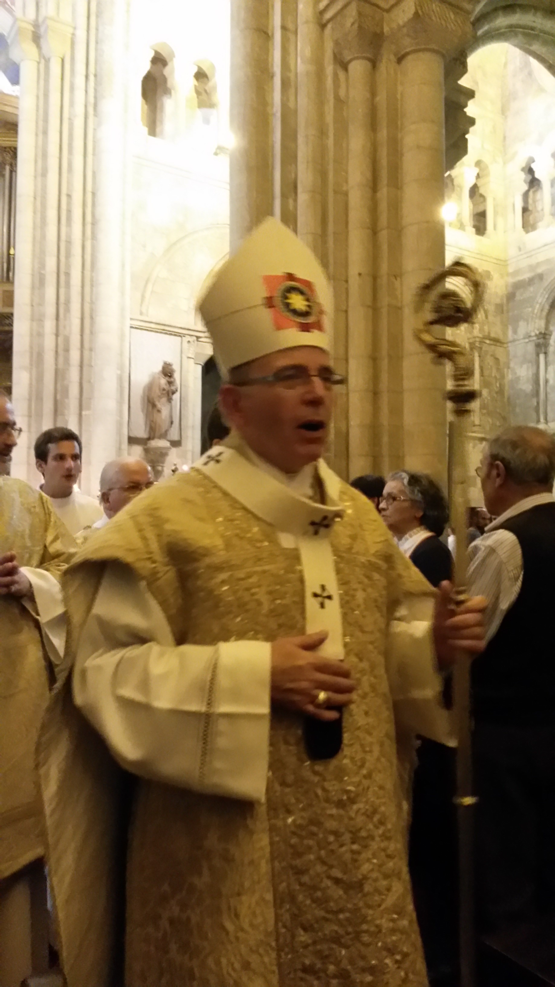 Manuel Clemente, Patriarch of Lisbon, during the anniversary celebration of Lisbon's Patriarchal Cathedral (25th October)